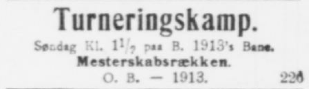 Advertisement for a 1926–27 FBUs Mesterskabsrække football match on 26 September 1926 - The text reads: Turneringskamp. Søndag Kl. 1½ paa B. 1913's Bane. Mesterskabsrækken. O.B. - B. 1913.